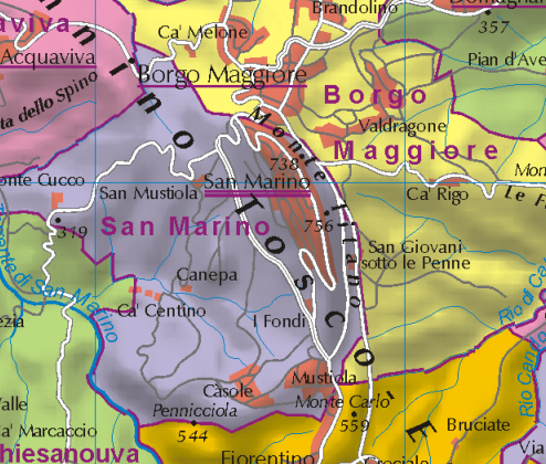 Mapa administracyjna San Marino, wersja włoska Administrative map of San Marino, Italian version